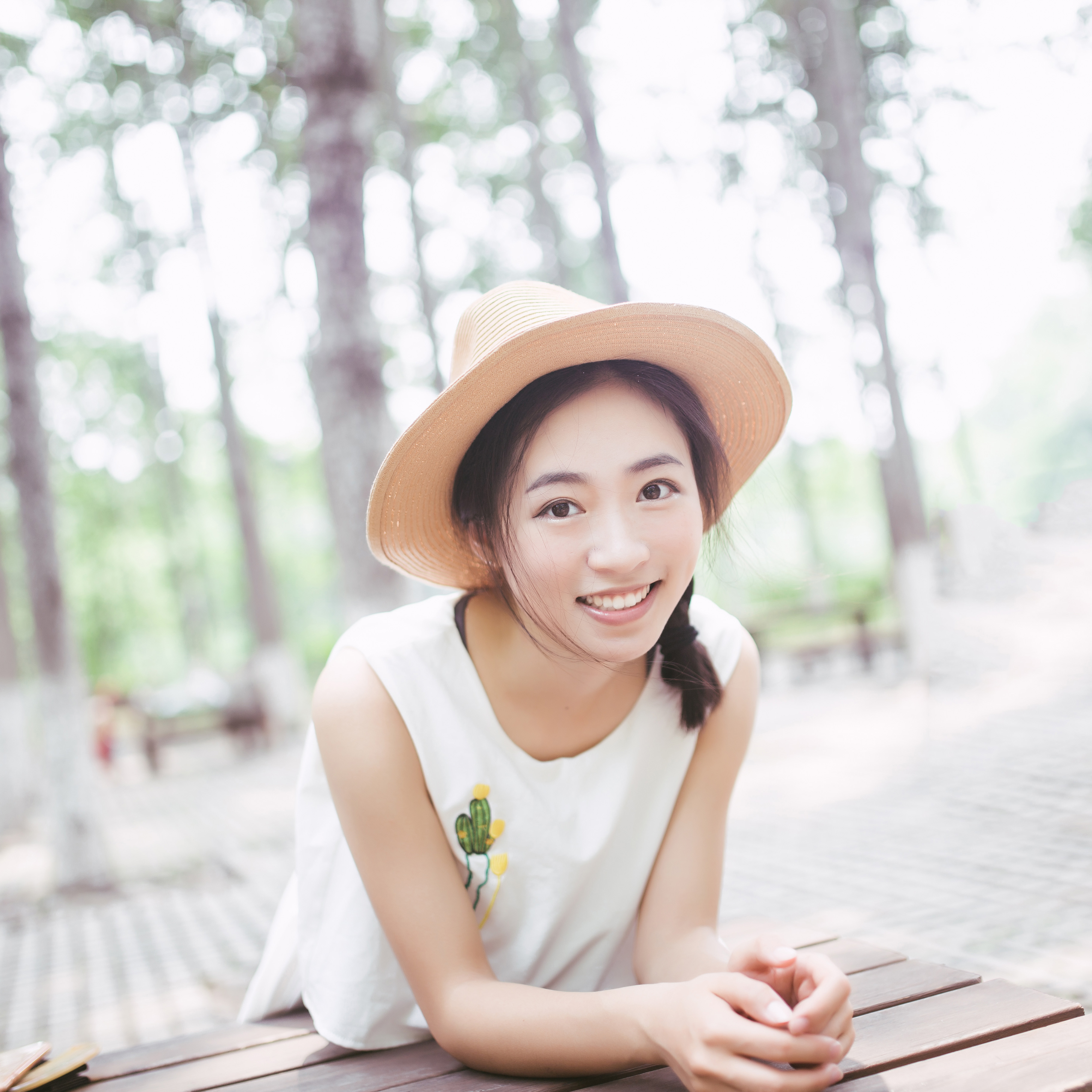 Ayen Ho